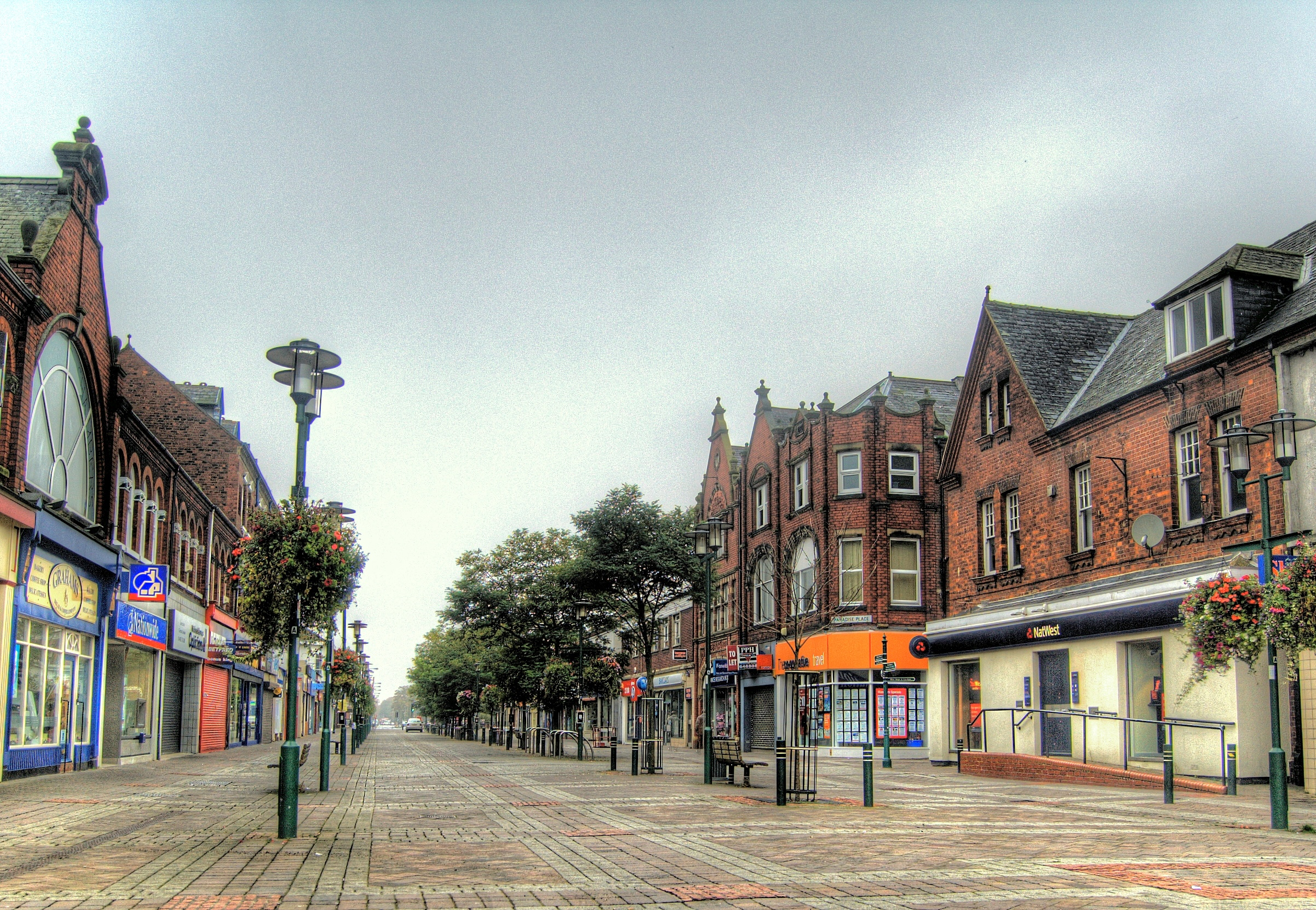 Boothferry Road, Goole, East Riding of Yorkshire, England.Taken on the 12th of October 2009.